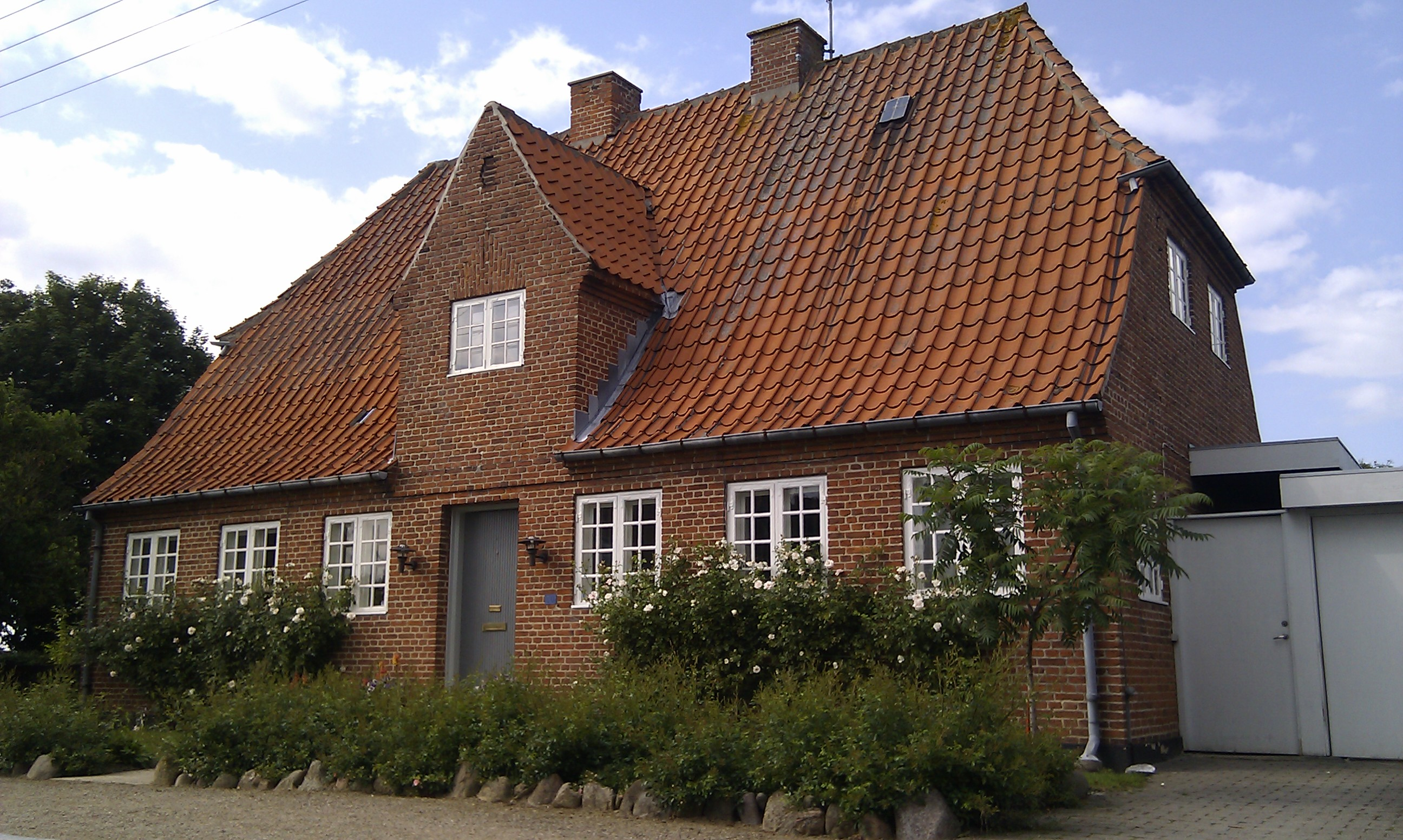 House designed by the "Bedre Byggeskik" movement in Holbæk, Denmark